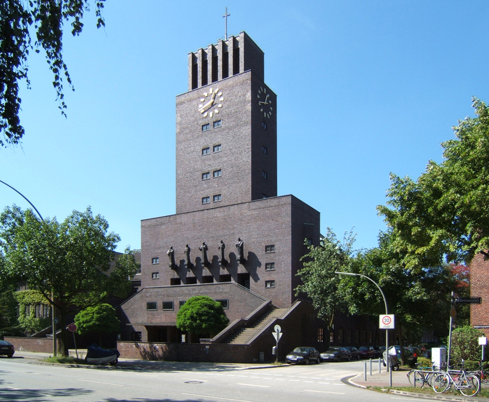 Bugenhagenkirche Hamburg-Barmbek Außenansicht This is the photograph of an architectural monument. It is part of the list of cultural monuments of Hamburg, no. 993